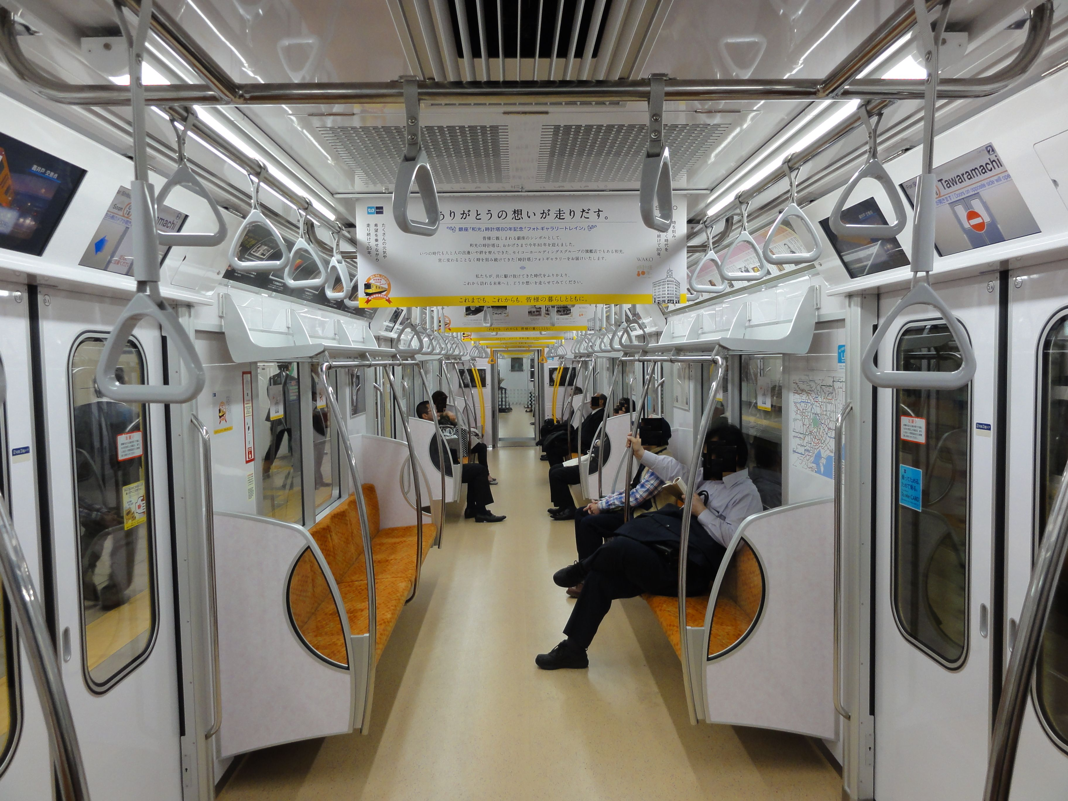 Interior view of a Tokyo Metro 1000 series Ginza Line EMU